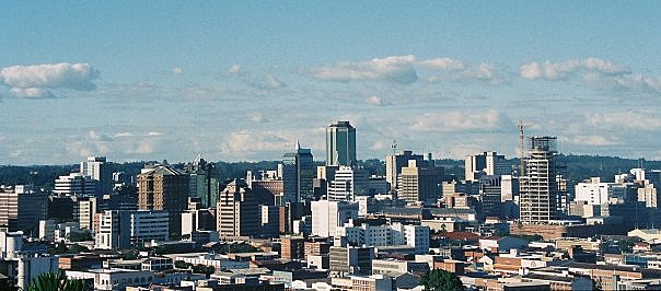 Harare Skyline